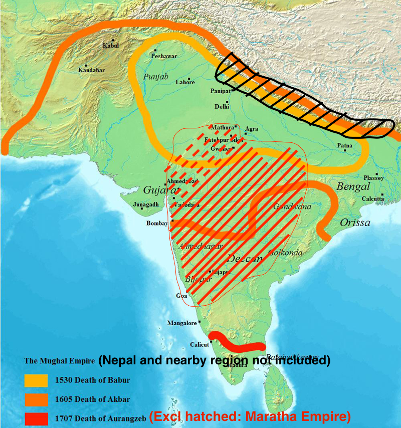 Historical map of the Mughal empire uploaded fra wikipedia with identical license The factual accuracy of this diagram or the file name is disputed.Reason: The map is incorrect and the original research of a user, with no citation to an external source for its data. It reconstructs history of the Indian subcontinent, misrepresents Nepal and several other regions being a part of Mughal Empire at various times, and does not show the various regions such as the Maratha Empire that were not a part of the Mughal Empire at the time of Aurangzeb's death.For usage see: disputed diagram|why